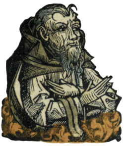 Saint Goar of Aquitaine (reportedly from the Nuremberg Chronicle)